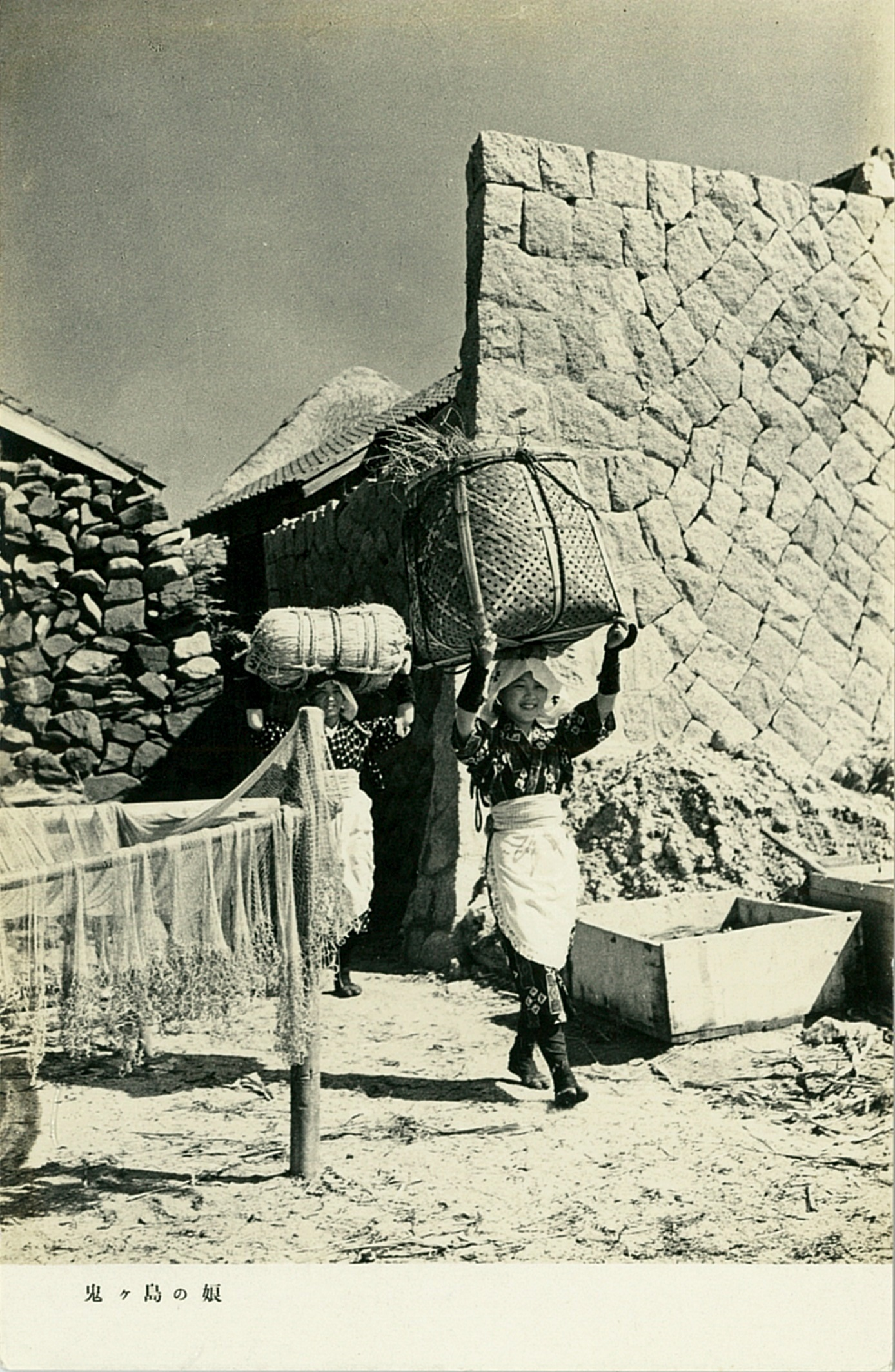 Japanese postcard showing two women on Megijima, an island in Kegawa Prefecture